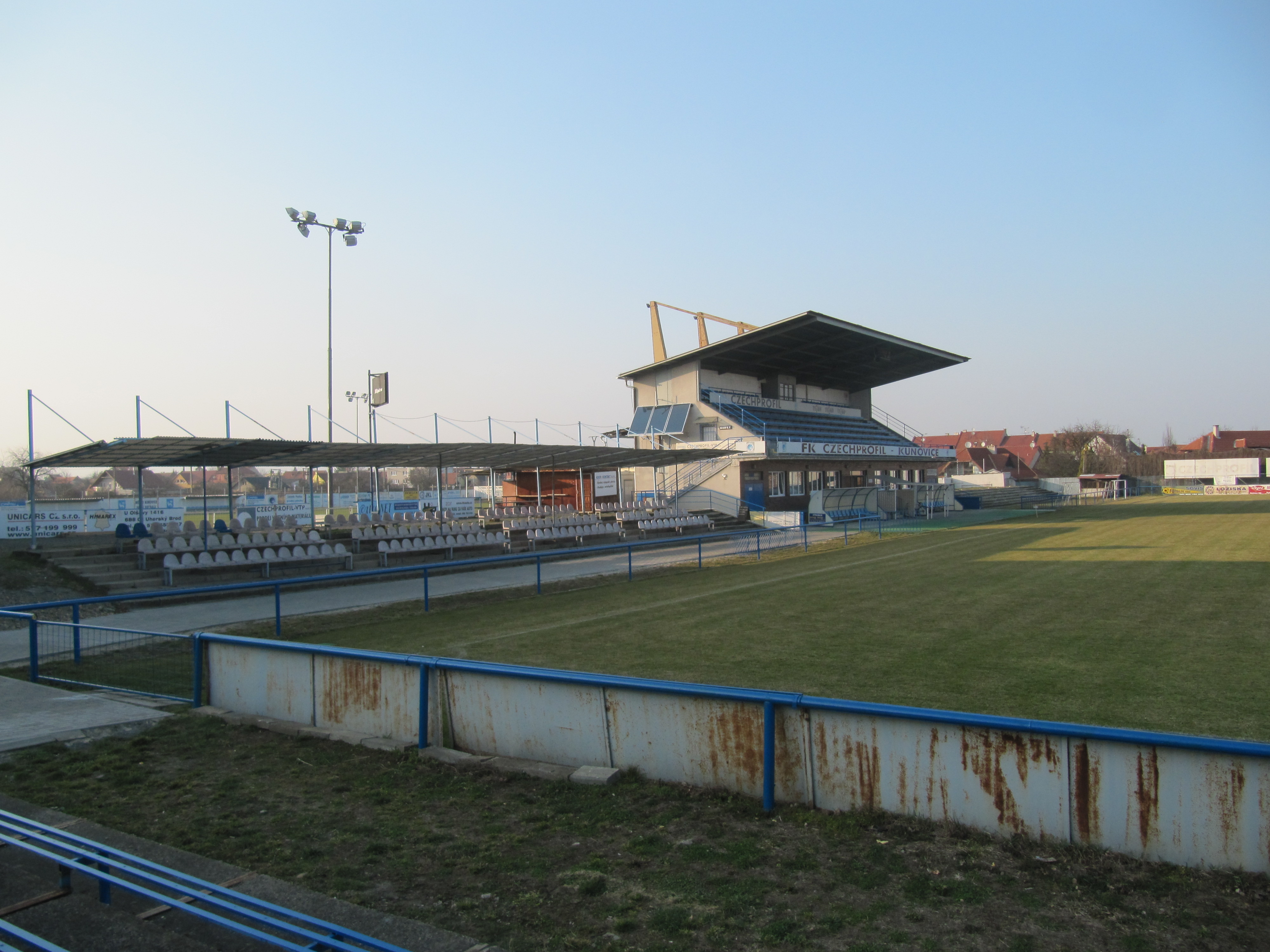 Kunovice in Uherské Hradiště District, Czech Republic.